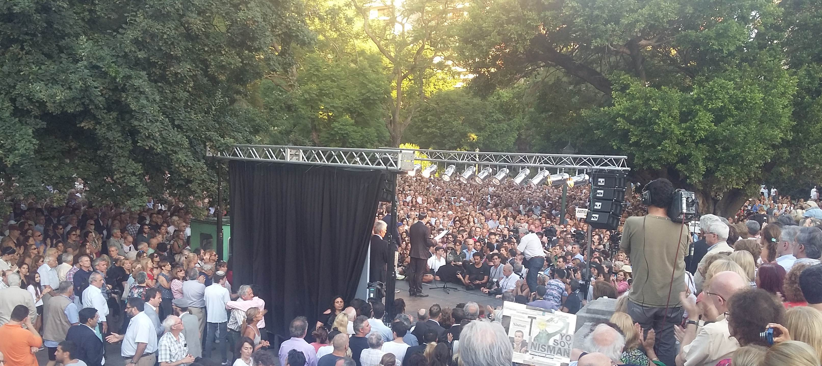 Protest march in Buenos Aires 1 year death anniversary of Alberto Nisman